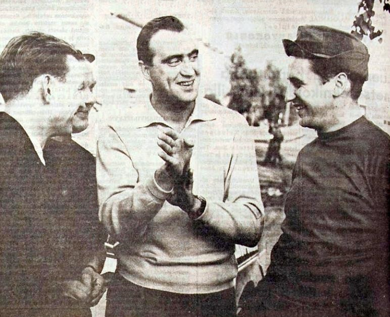 Rauno Aaltonen, Pauli Toivonen and Timo Mäkinen before the Hippos circuit stage of the 1965 1000 Lakes Rally (Rally Finland).